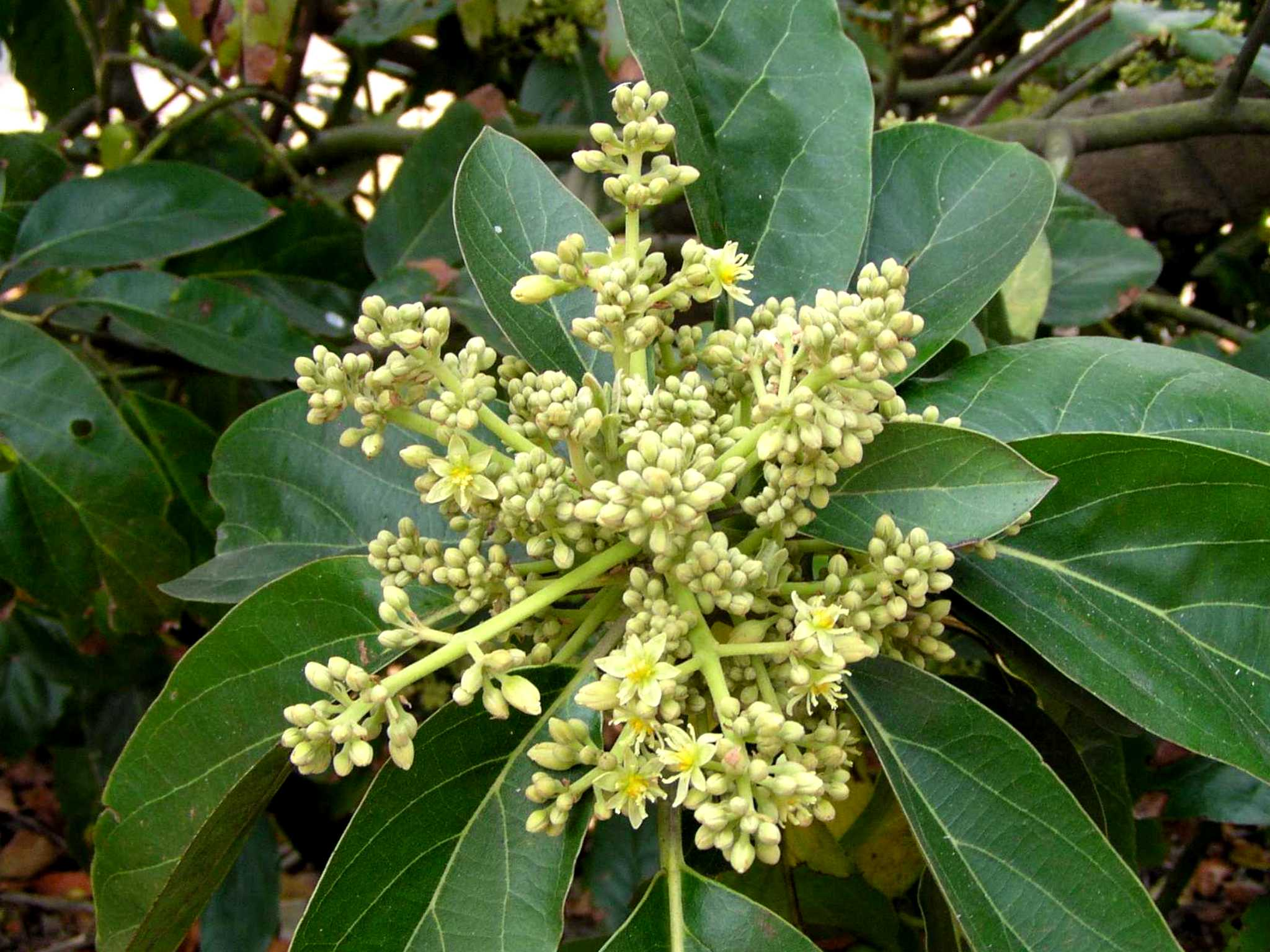 Persea americana flowers